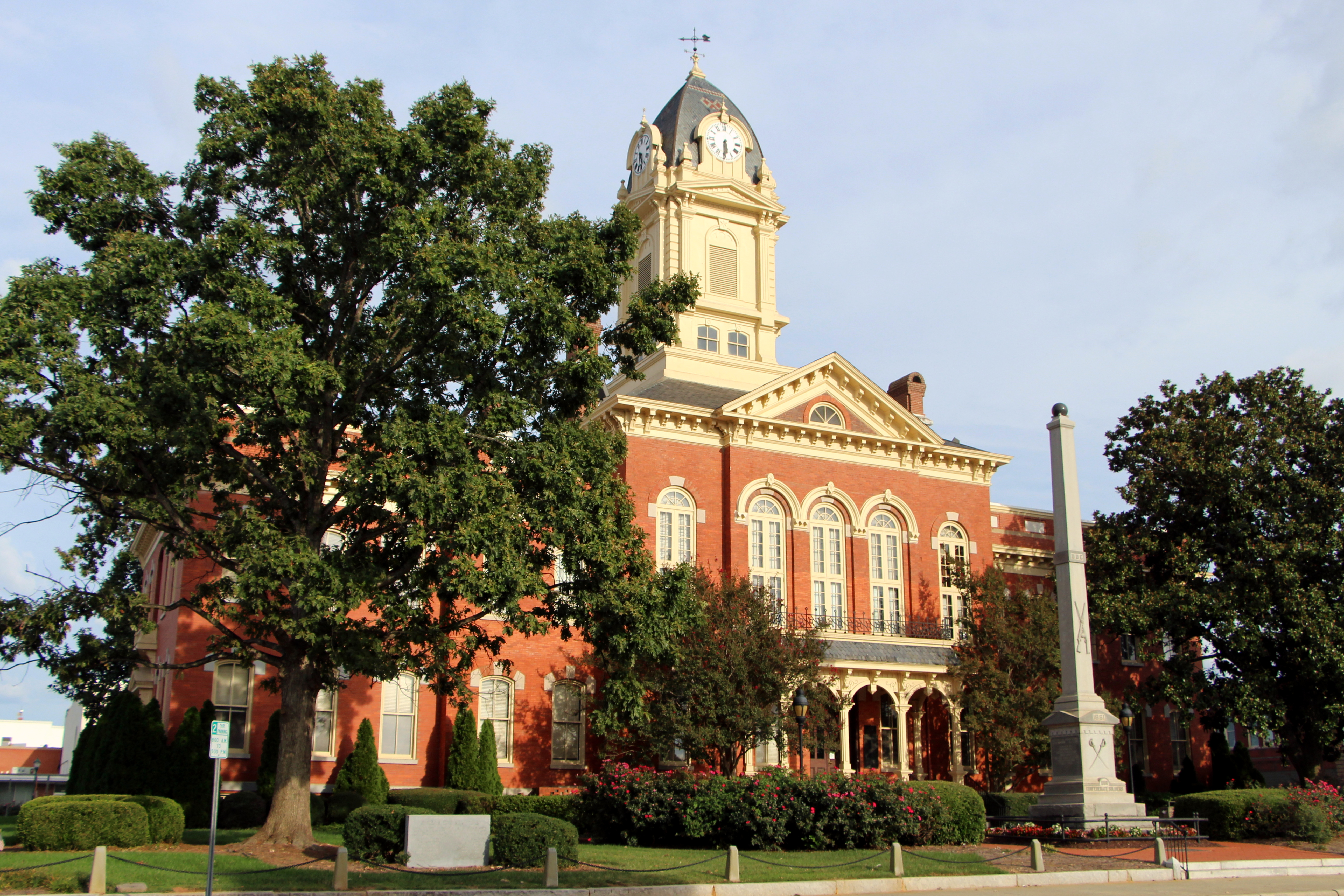 It is located in the Monroe Downtown Historic District. 400 North Main Street. Monroe, NC 28112 It was listed on the National Register of Historic Places in 1971